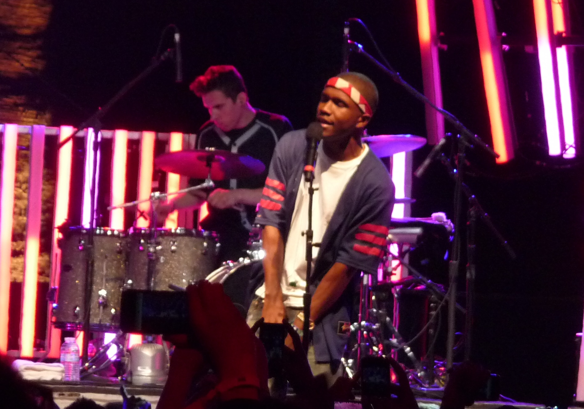 Frank Ocean at Coachella Music Festival in April 2012 in California.